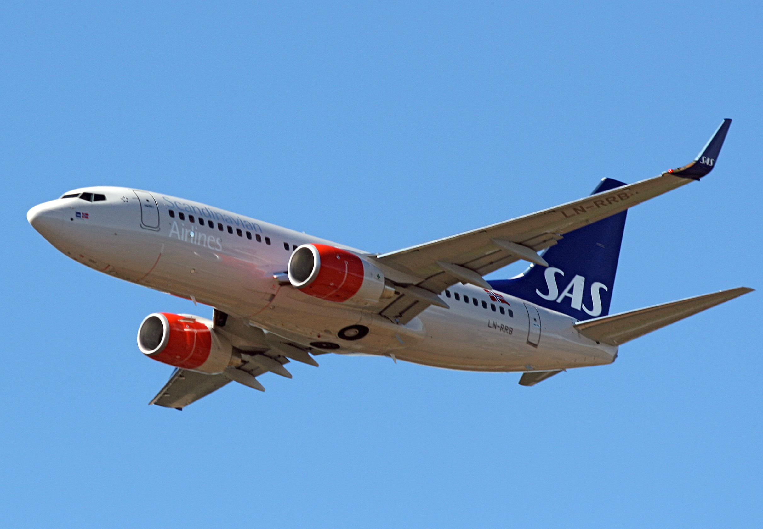 Scandinavian Airlines Boeing 737-700 at Rygge Air Show 2007